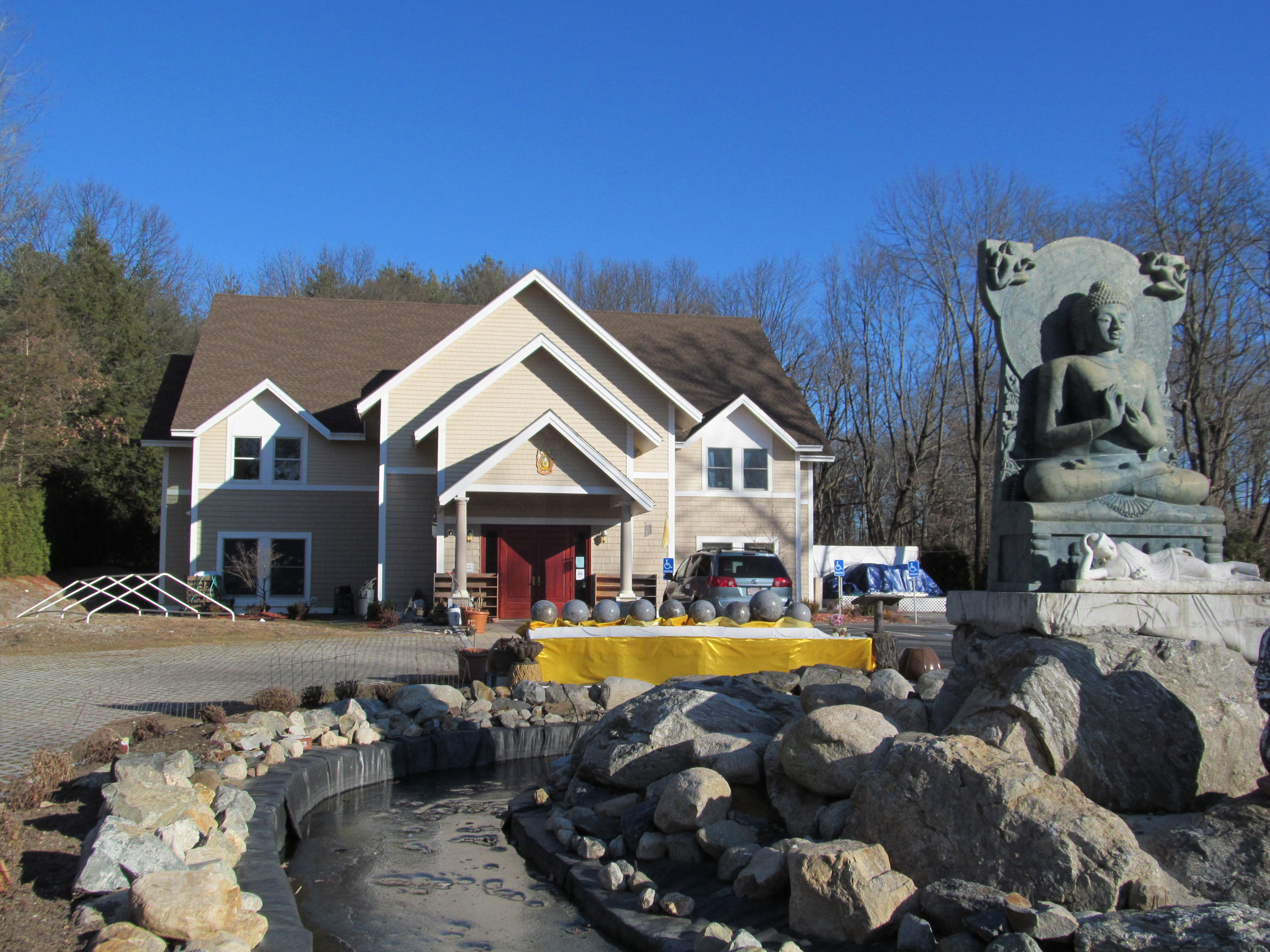 Wat Boston Buddha Vararam, Bedford Massachusetts